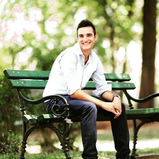 This is detail from the music video for Vasilije's song "Zauvijek" which competed both in Montenegrin, Slovenian and Swiss National Finals for Eurovision Song Contest 2016 to be held in Sweden.